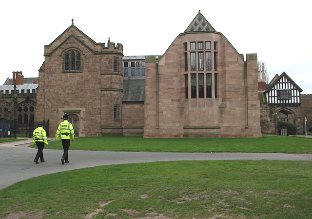 Mappa Mundi and Chained Library are housed here This is the award-winning New Library Building at Hereford Cathedral. The chamber is specially designed so the books can be seen in their original arrangement - as it was from 1611 to 1841. Mappa Mundi records how 13th century scholars interpreted the world, in both spiritual and geographical terms. The scholars placed Jerusalem at the centre of the world. It's a truly fascinating map.